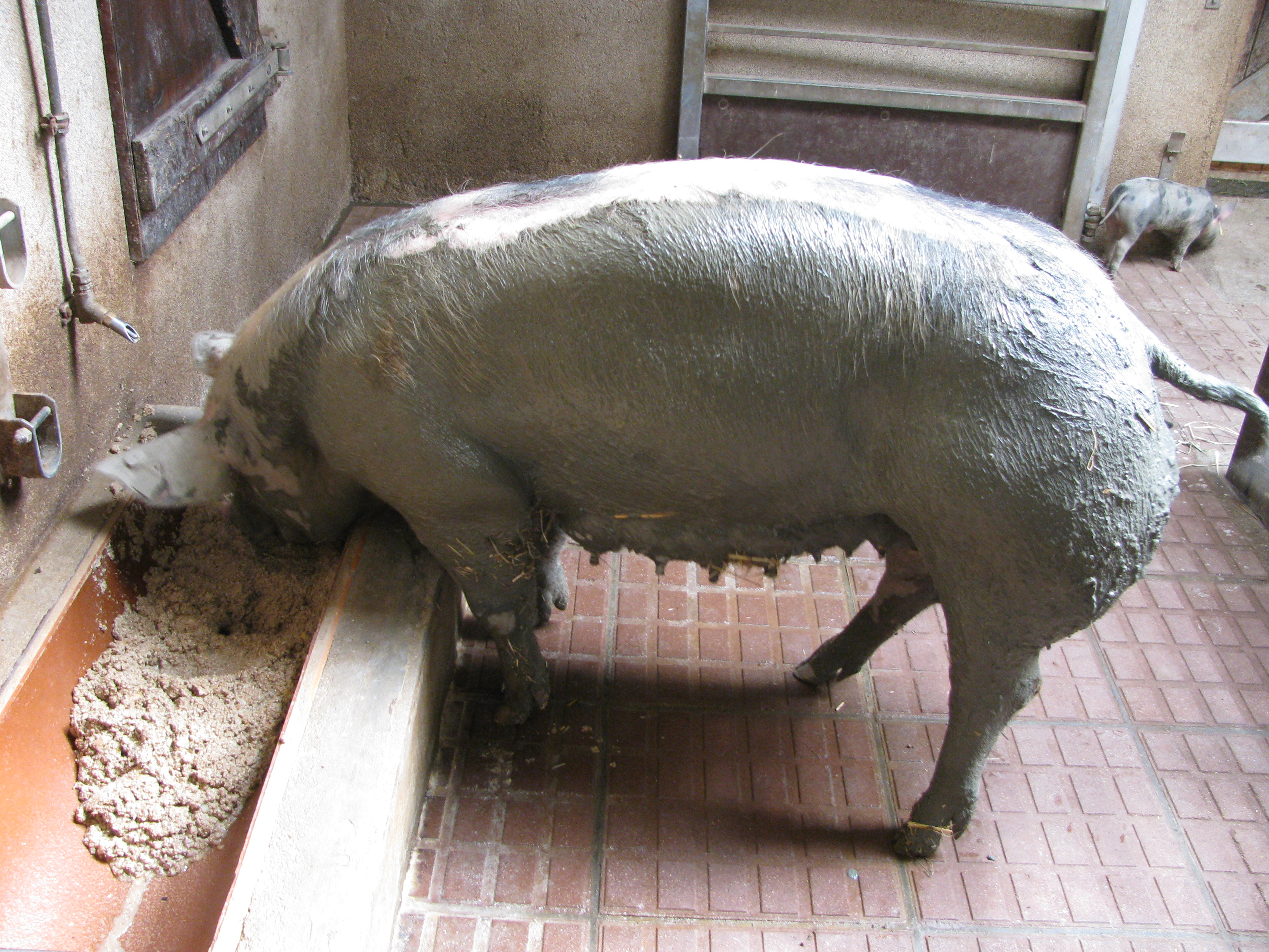 portraited at the Tierpark Hagenbeck zoo in Hamburg, Germany